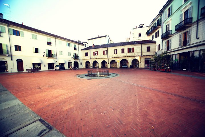 Piazza palazzo Vecchio Vercelli